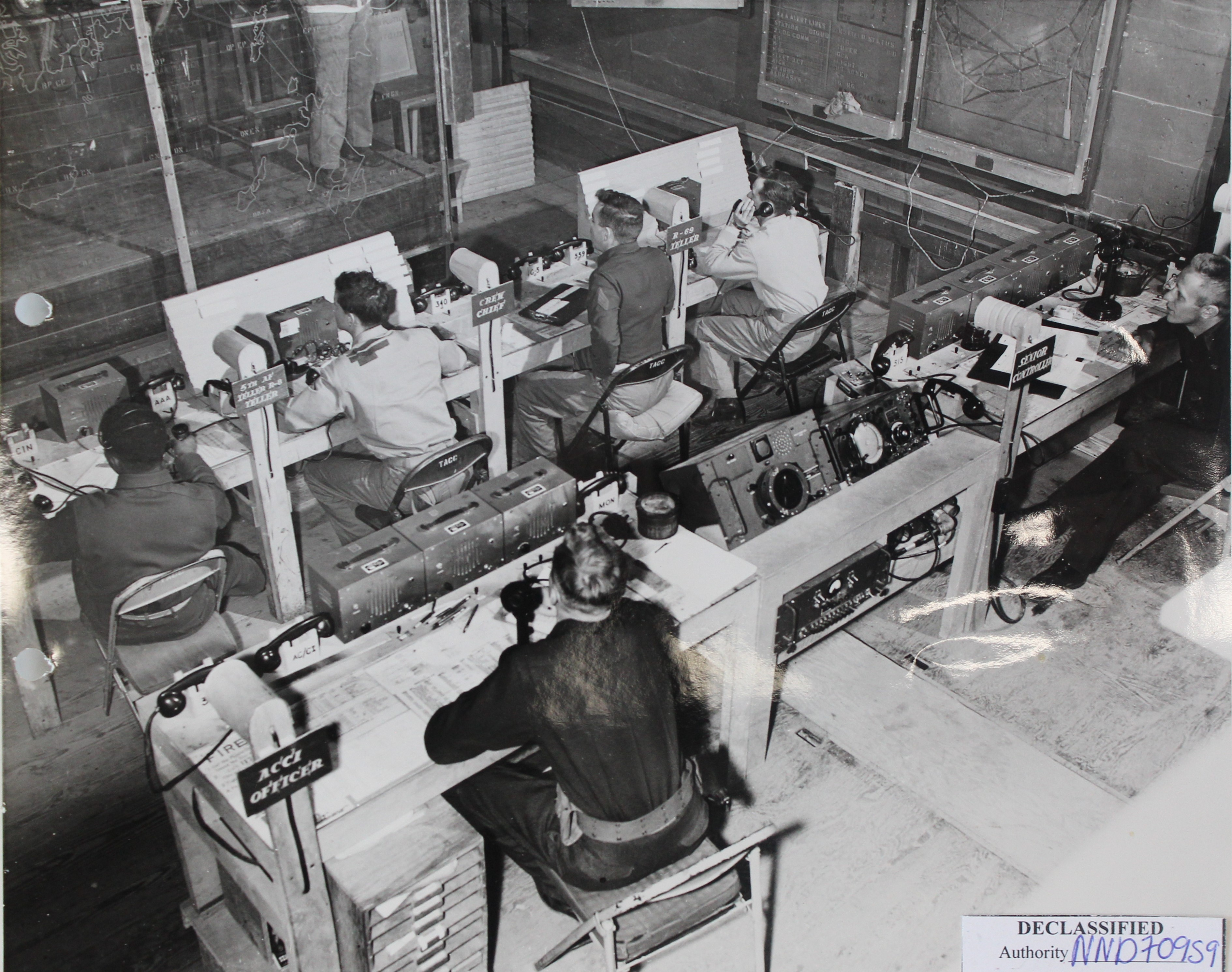 Overhead photo of the Tactical Air Control Center run by Marine Air Support Squadron 2 in Pohang, South Korea in March 1954